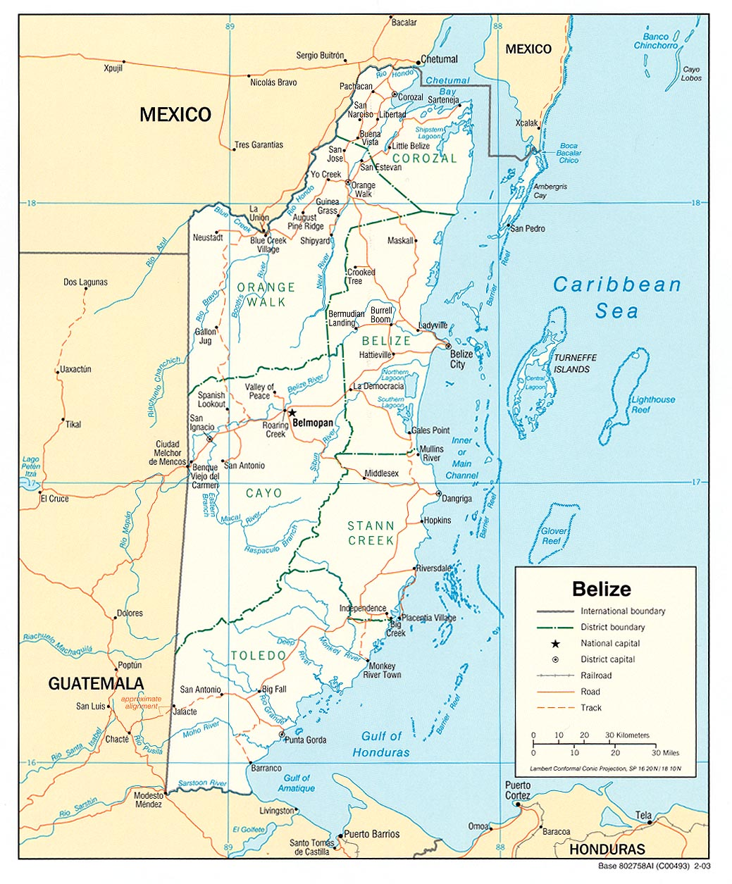 Political map of Belize, Lambert Conformal Conic projection